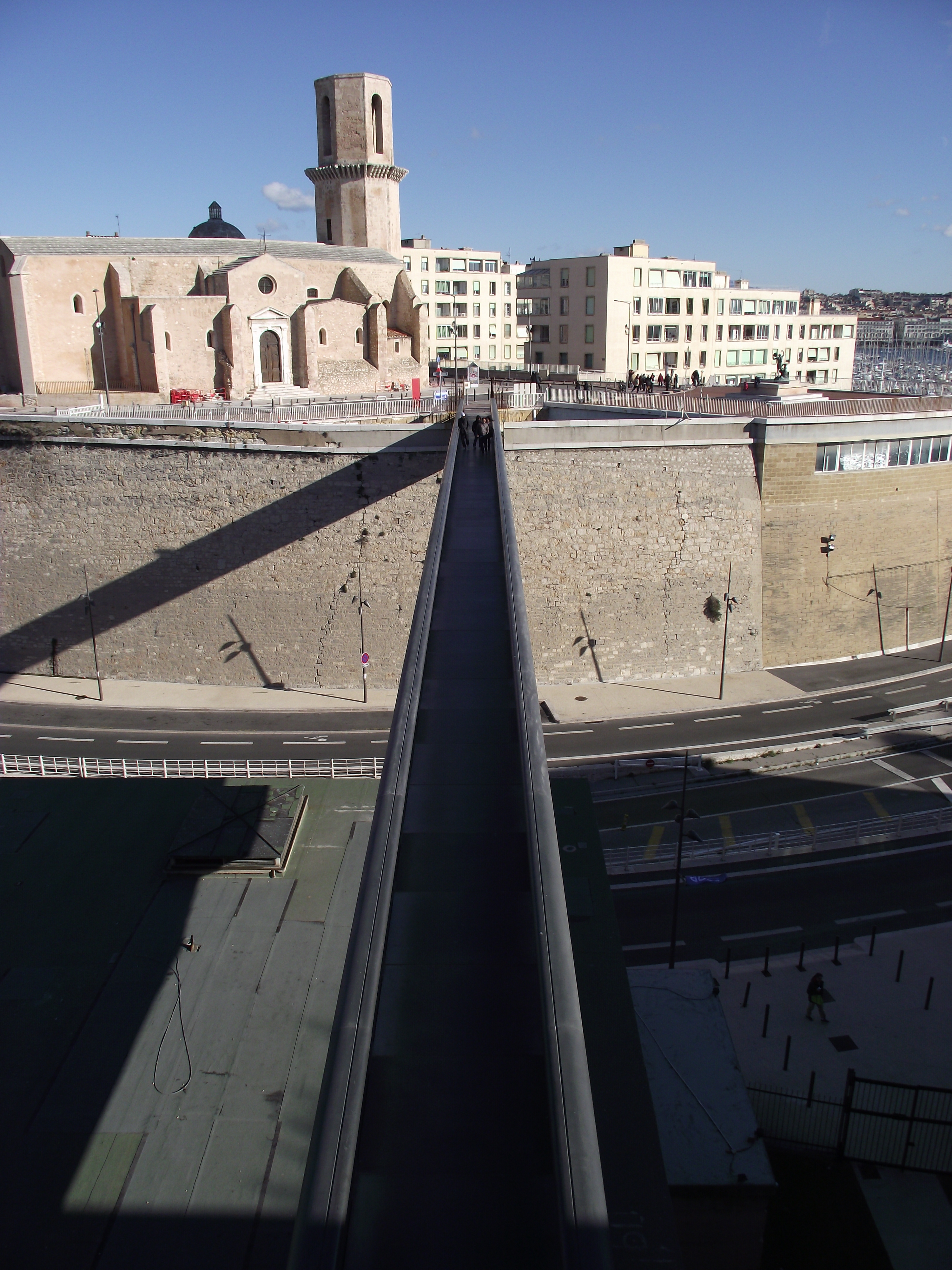 Hôtel de Ville | Promenade Louis Brauquier The Hospitallers of Jerusalem first occupied the old Chapel of St. Jean-Baptiste, and then undertook the construction of a new church, a hospital and the Palace of the Commander. The set was completed in 1365. Between 1447-53, King René built the Tour Carrée which bears his name: "Tour du roi René". In the middle of the 17th, the Marseille shipowners planned the construction of the "Tour du Fanal" or Tour Ronde, a lookout tower high enough to be visible for commercial vessels more than 20km from the harbor of Marseille. It remained a fort until the French Revolution, then it became a prison and is now an important part of the MuCEM. Here, the footbridge built by Rudy Ricciotti connecting the fort to the Esplanade de la Tourette, with the Eglise Saint-Laurent and La Tourette buildings in the background.